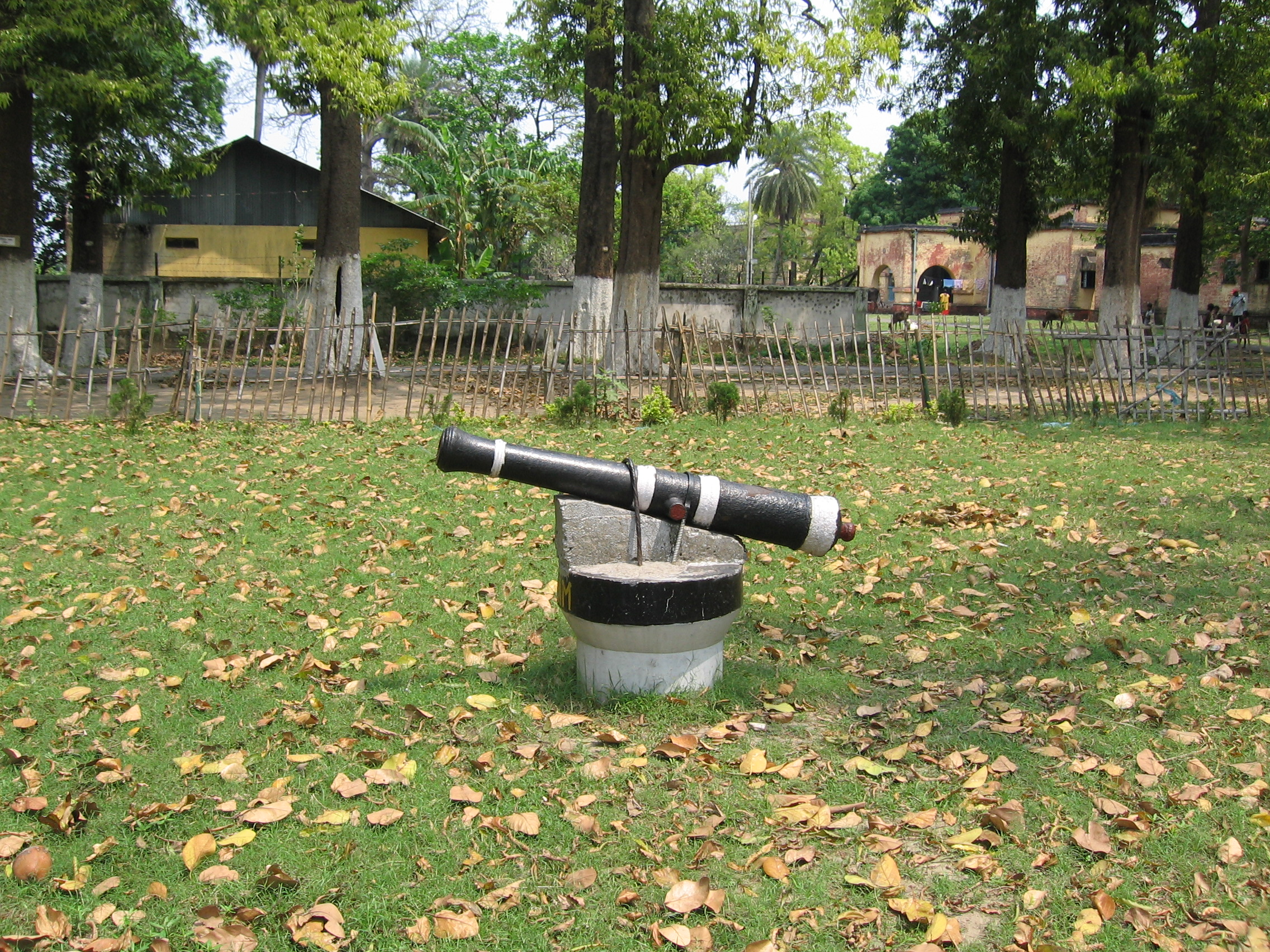 Cannon of the extinct Ostend Trade Company, at Ichhapur (West-Bengal). Then Bankibazar.